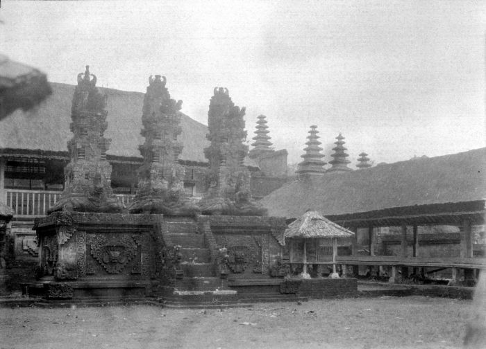 Thrones for gods at the temple complex at Besakih